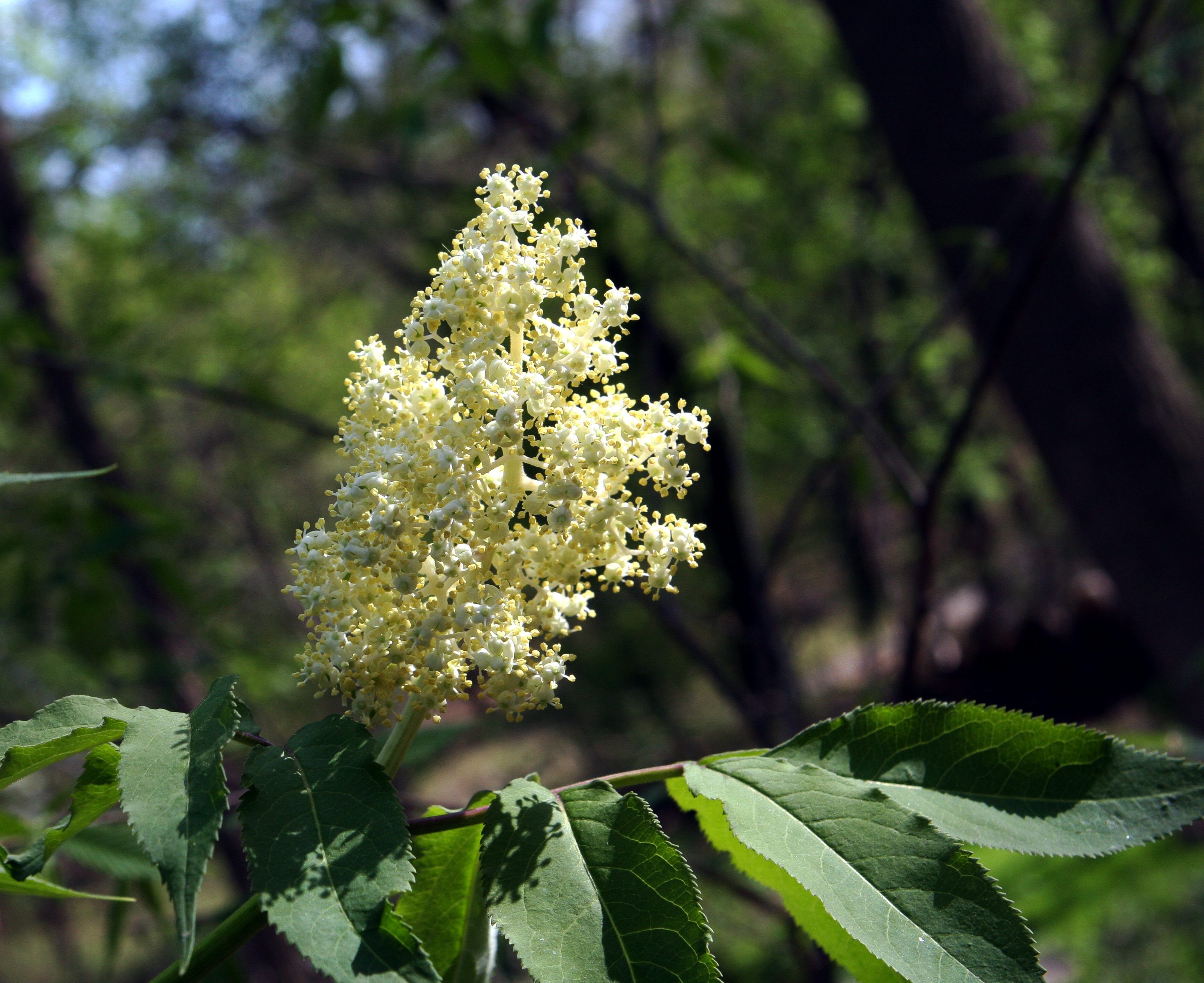 Sambucus pubens in flower in spring.